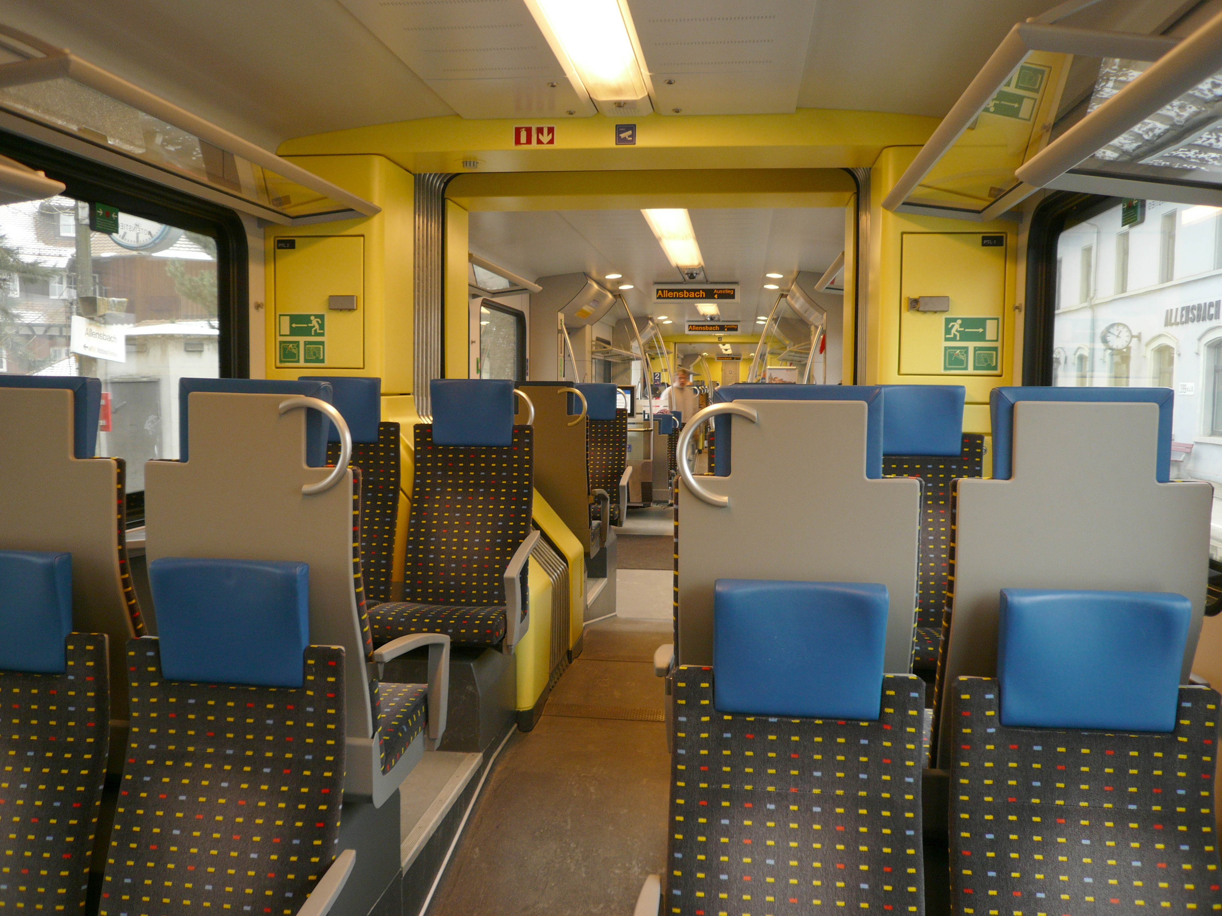 Interior of train "Seehas"